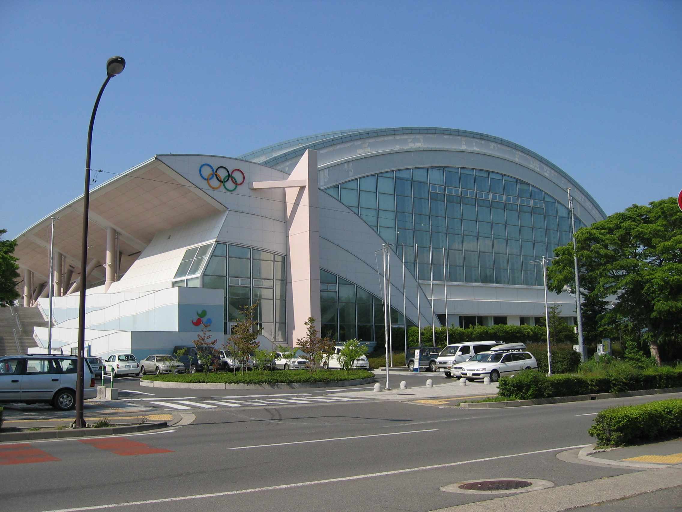 Aqua Wing Arena is multipurpose sports arena in Nagano, Japan. It was built for a venues of 1998 Winter Olympics.